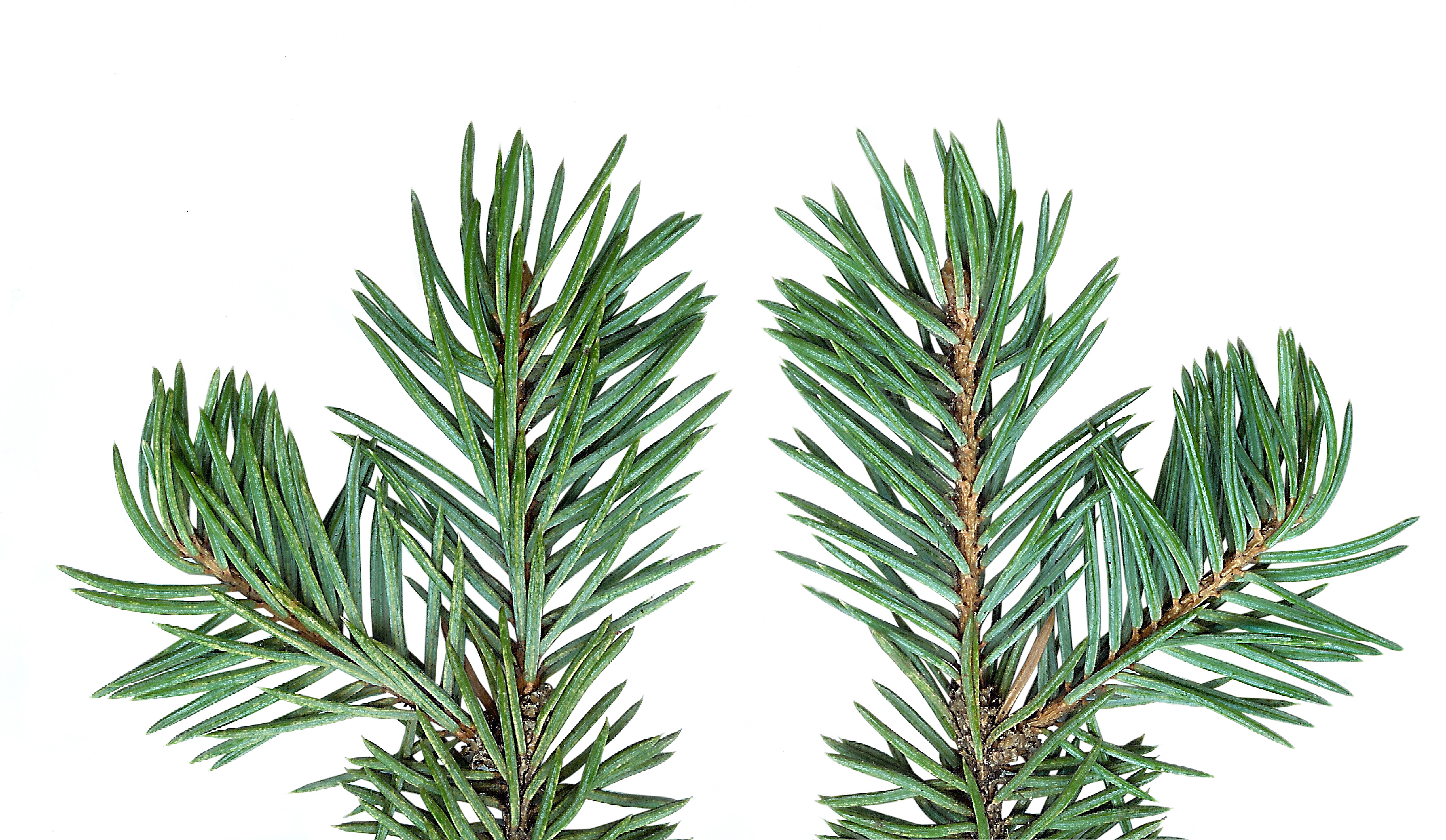 Shoot of Picea abies